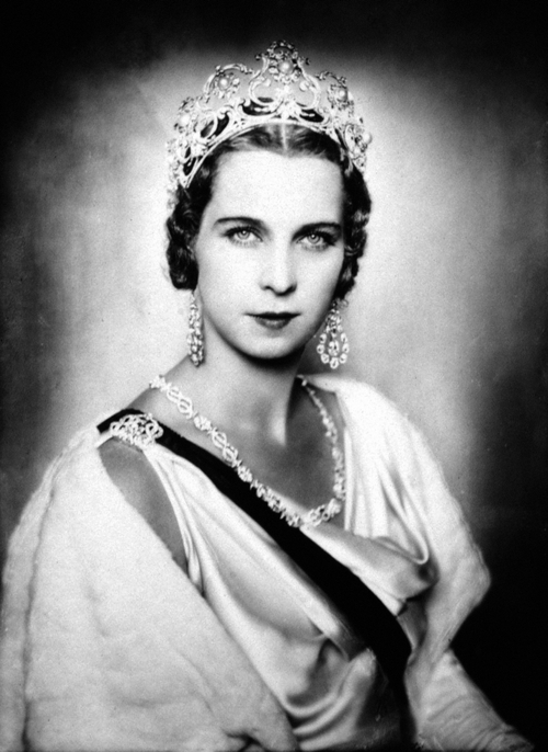 Queen of Italy Maria José of Belgium